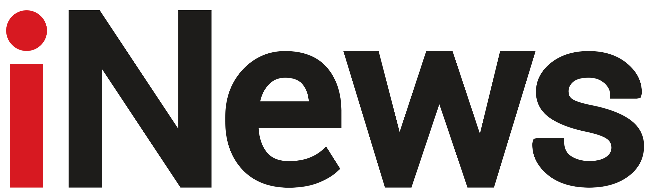 Logo of iNews, Indonesian news television network owned by Media Nusantara Citra.